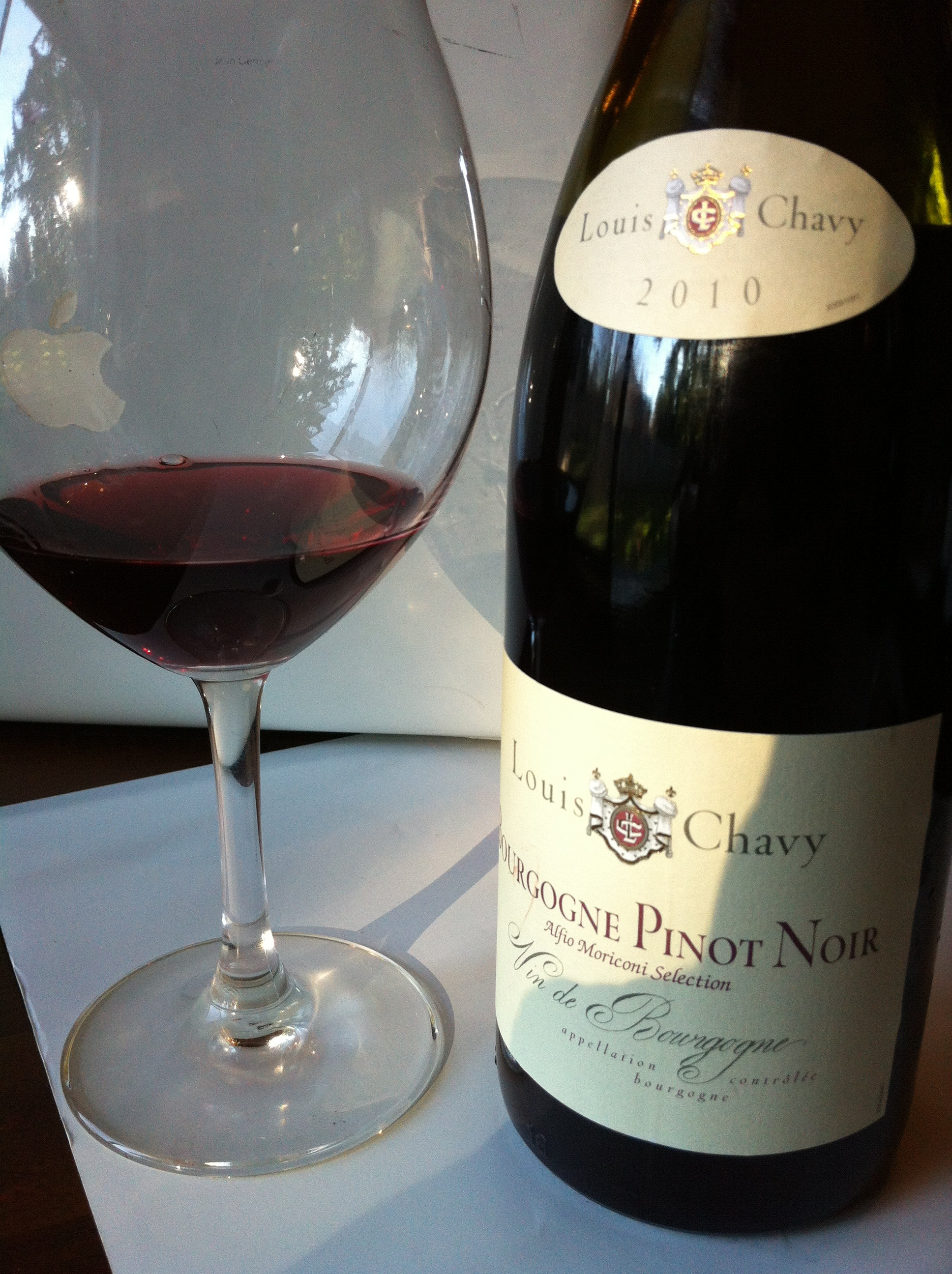 French Pinot noir from the Burgundy region